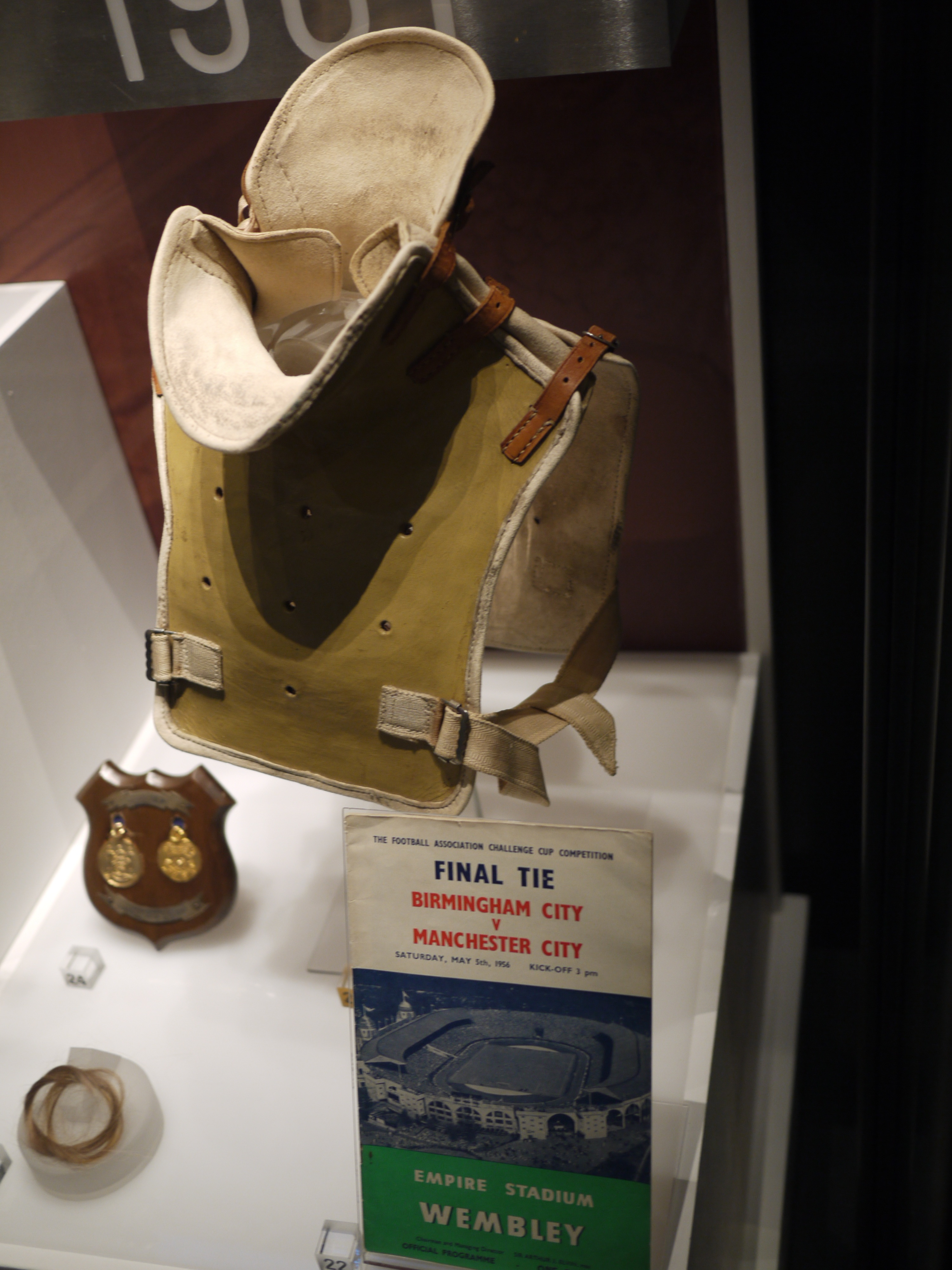 With 17 minutes of the 1956 FA Cup Final to go and Manchester City leading Birmingham City 3 - 1 , The Manchester City goalkeeper, Bert Trautmann broke his neck. Amazingly he carried on playing and Manchester City won the Cup. Only later was it discovered that Bert had broken his neck. He had to wear this very neck brace and missed out on most of the next season. Bert went down in football history and remains the only German ex Nazi Paratrooper to win an FA Cup Winner's medal. This can be seen at the National Football Museum in Manchester.